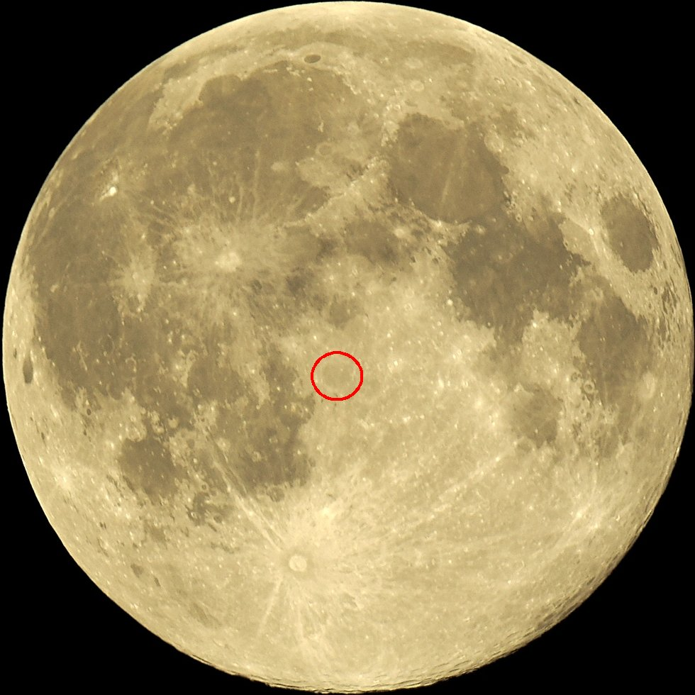 Location of crater Ptolemaeus on the Moon